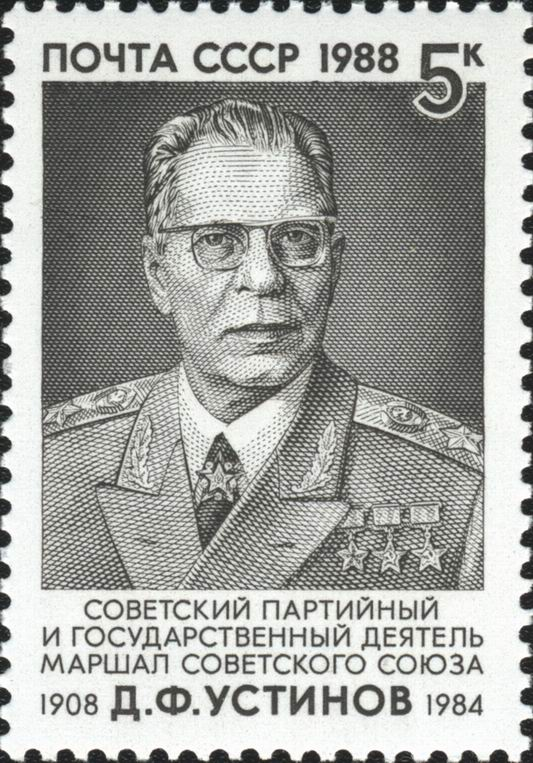 А Soviet Union stamp, Military persons of the USSR. 80th Birth Anniversary of D.F.Ustinov. 5 K. agate. Portrait of marshal D.F. Ustinov (1908-1984). Designer: V. Nikitin. Michel catalogue number: 5883.